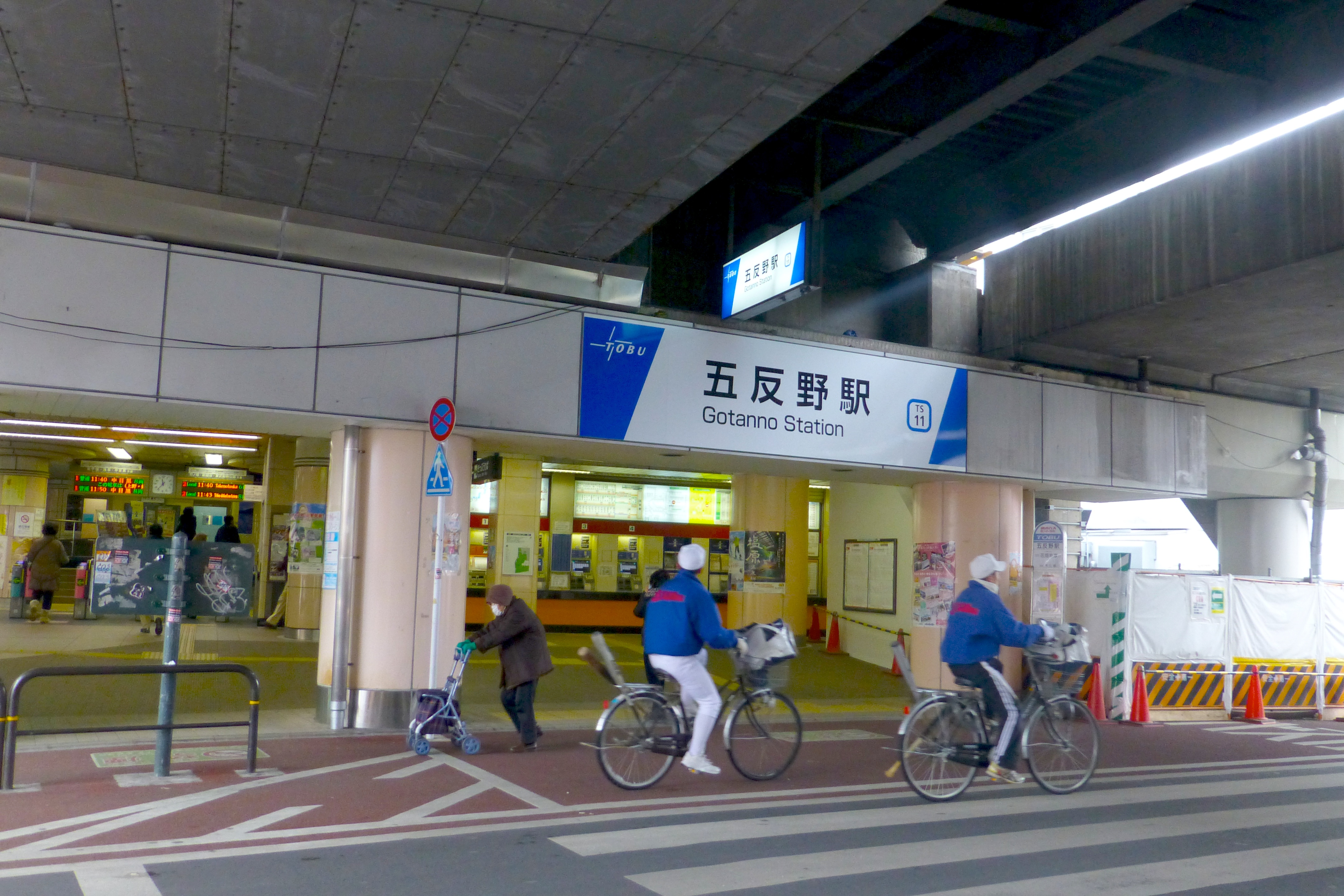 Gotanno Station (五反野駅 Gotanno-eki) is a railway station on the Tobu Skytree Line in Adachi, Tokyo, Japan, operated by the private railway operator Tobu Railway.